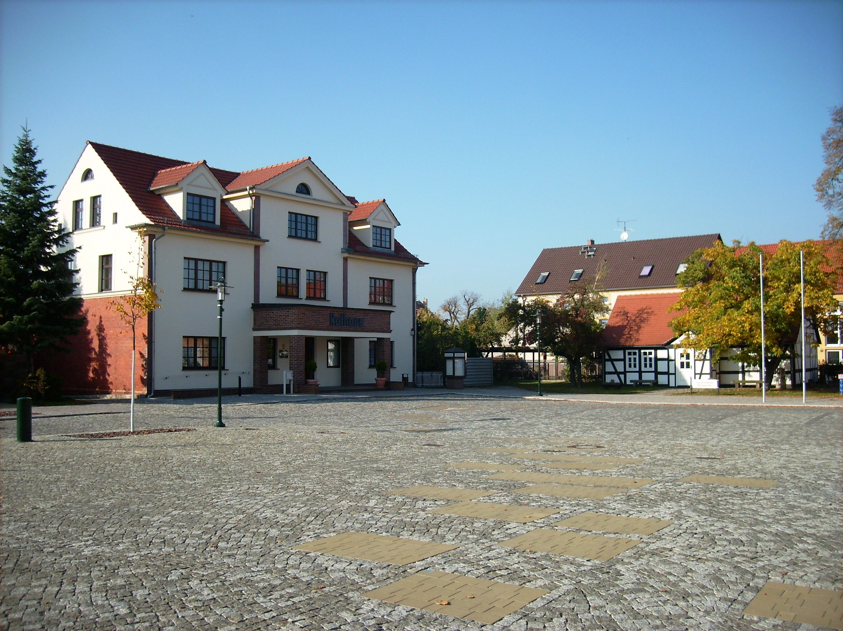 Market square in Falkenberg/Elster (Elbe-Elster district, Brandenburg) with town hall and museum of local history